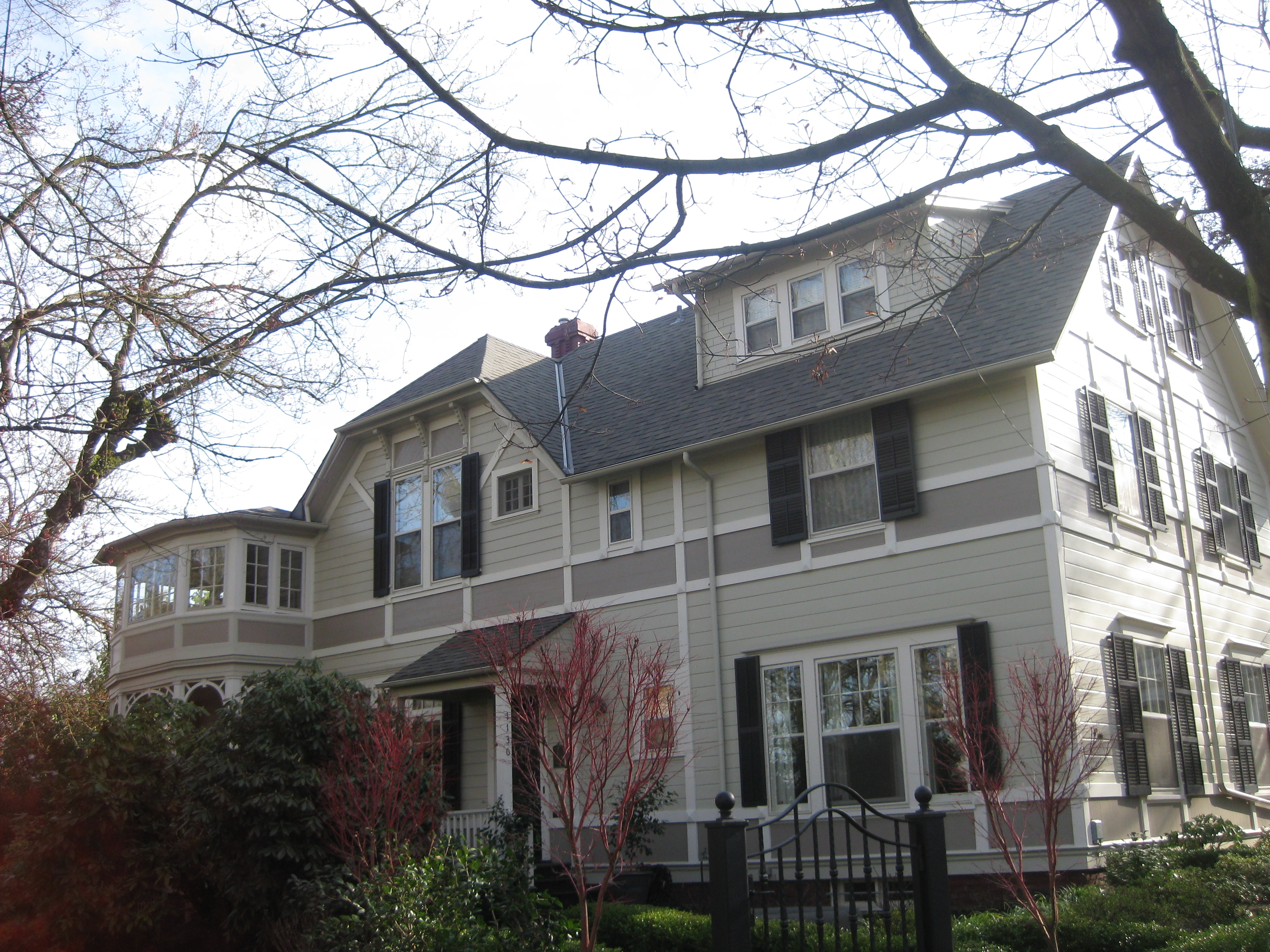 The Stick style Gaston-Strong House (built 1884) located at 1130 SW King Avenue in Portland, Oregon, United States, is listed on the US National Register of Historic Places (NRHP). Stick style is a subset of Queen Anne architecture. The House is also part of the NRHP-listed King's Hill Historic District. NRHP reference number 90000292